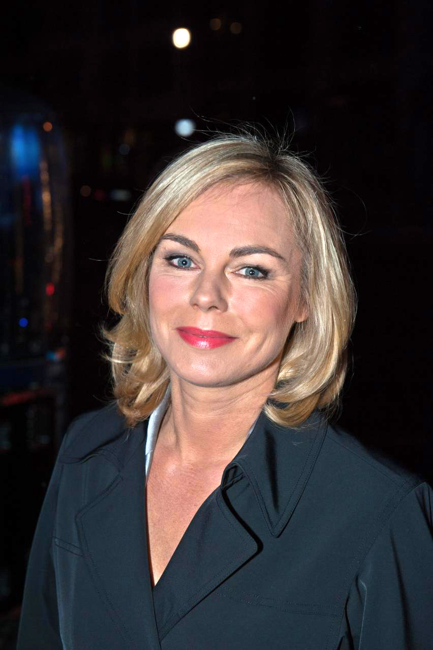 Saskia Valencia, German actress, Berlinale 2012, ARD Degeto Blue Hour Party